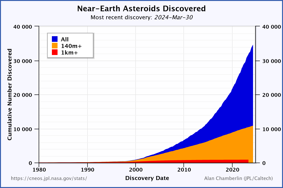 All known Near Earth Asteroids (NEA), cumulative discoveries over time